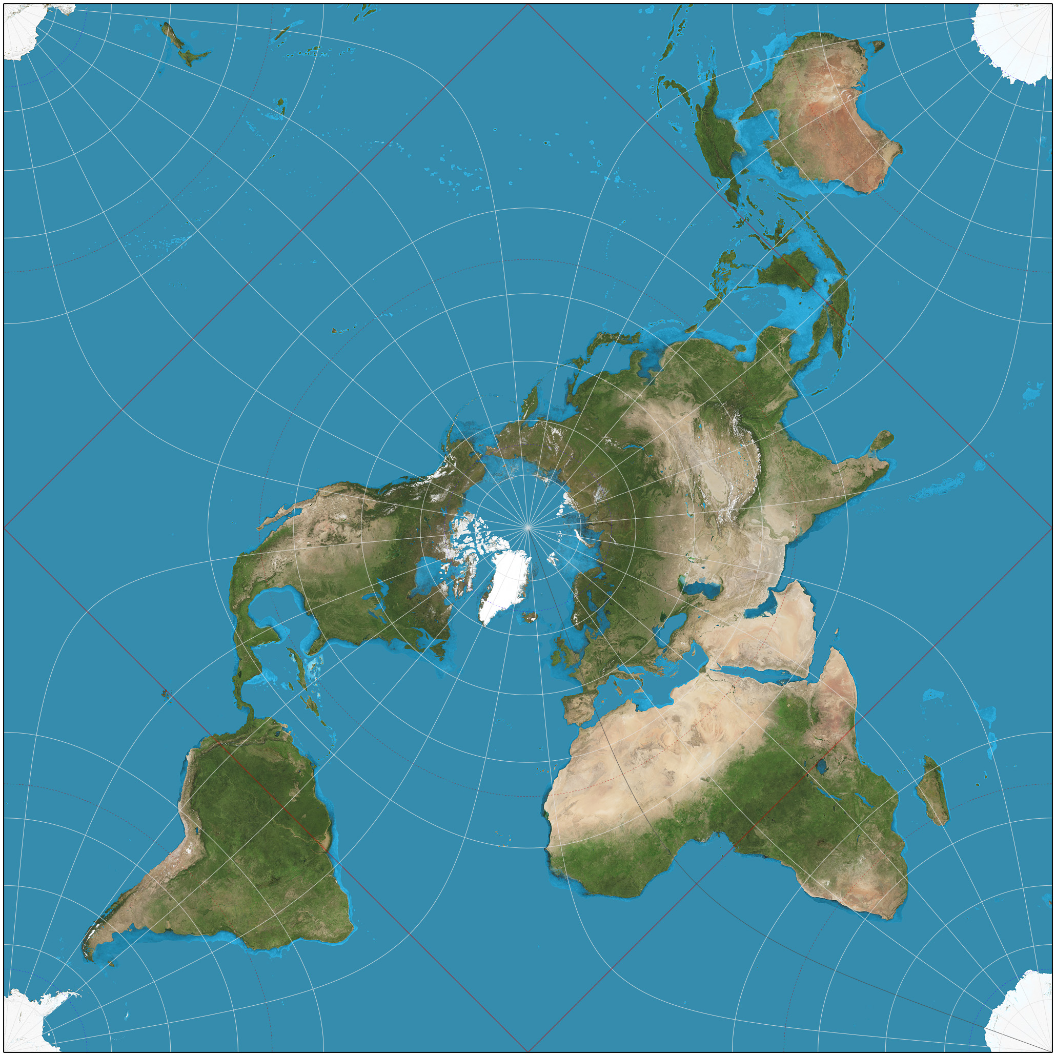 The world on Peirce quincuncial projection. 15° graticule, central meridian at 20°W. Imagery is a derivative of NASA’s Blue Marble summer month composite with oceans lightened to enhance legibility and contrast. Image created with the Geocart map projection software.